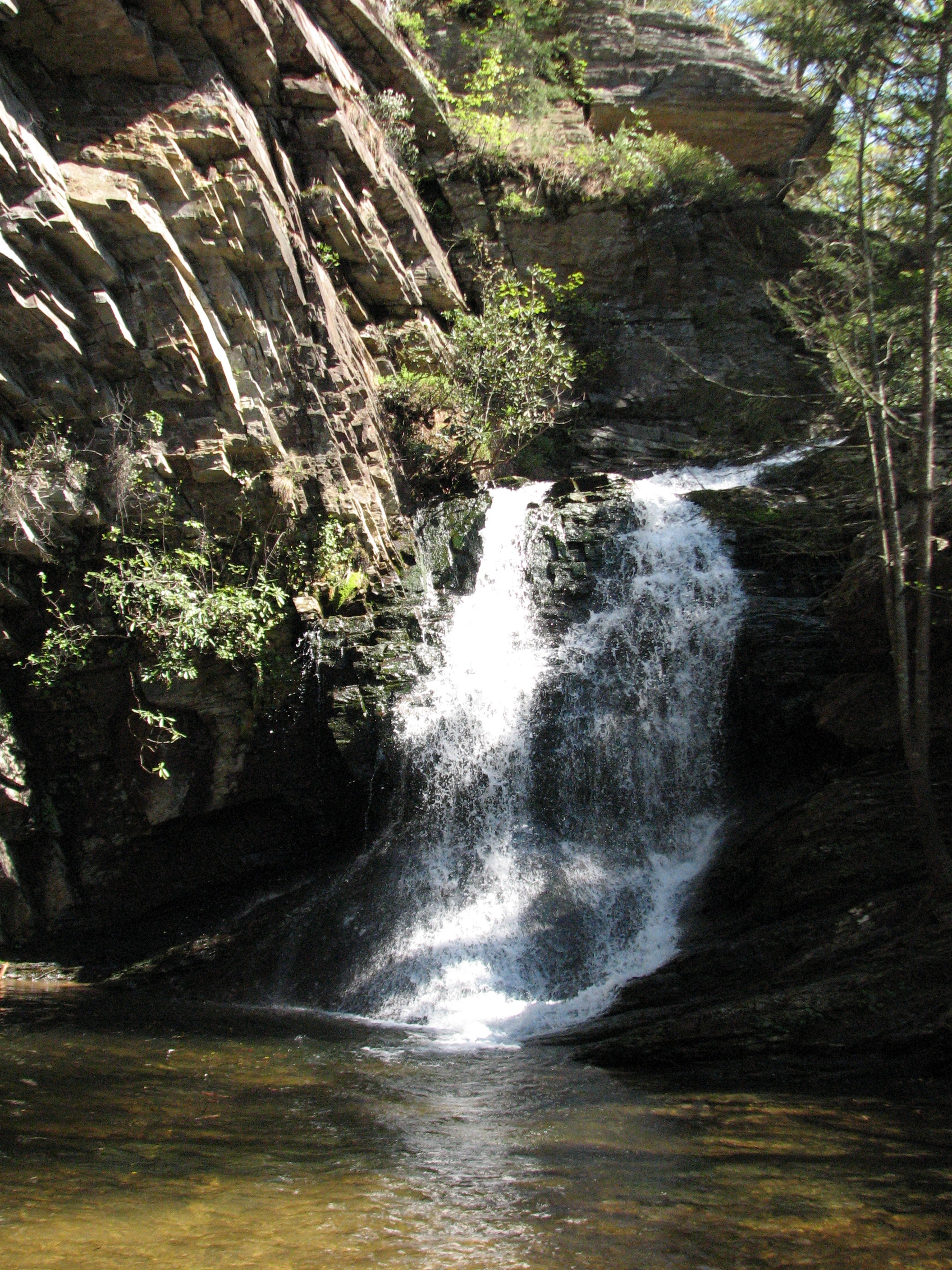 Lower Cascades waterfall at Hanging Rock State Park in Stokes County, North Carolina.